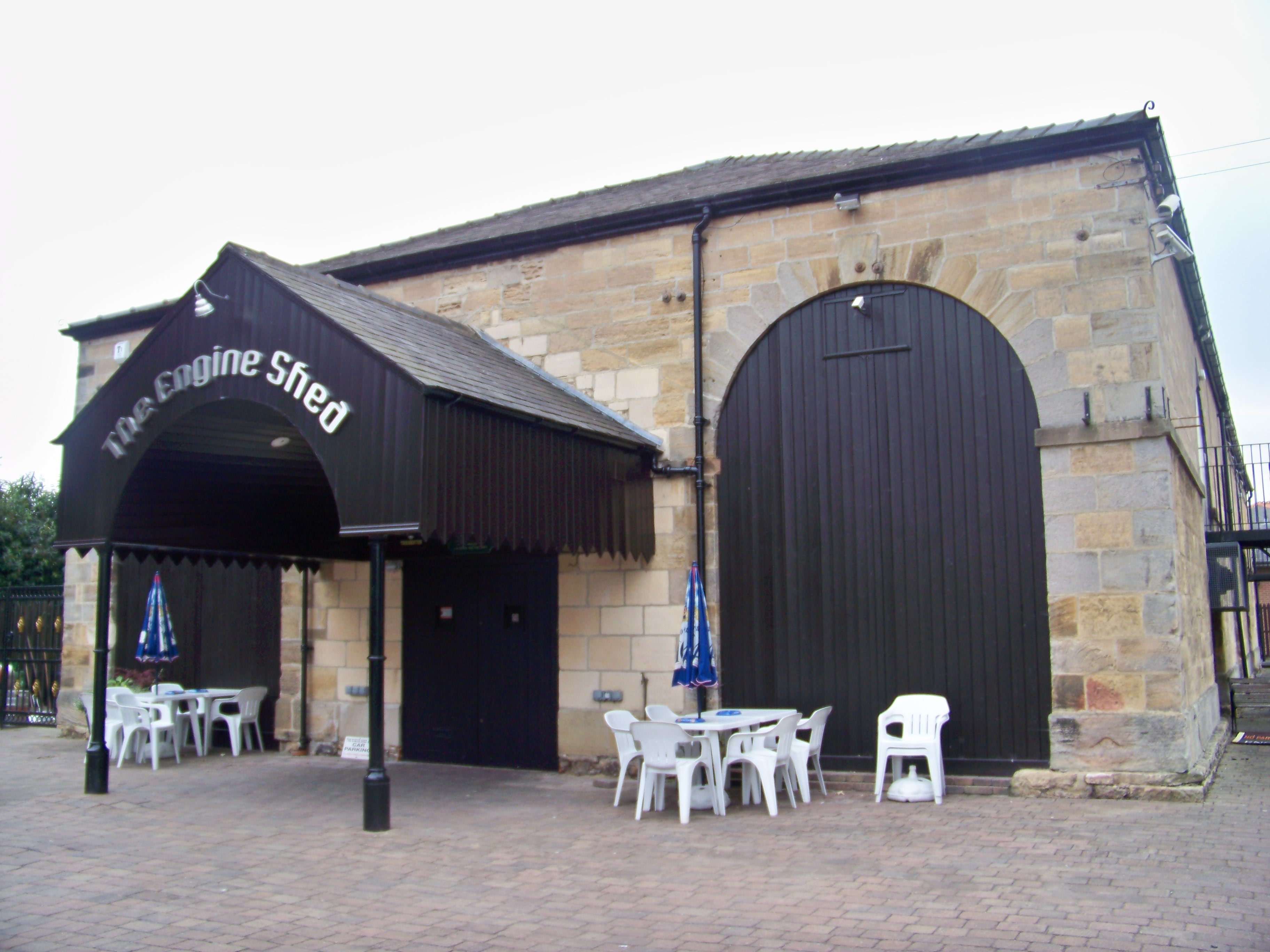 The buildings of the former Wetherby (York Road) railway station. Now used as a licenced dancing club. Taken on the evening of Saturday 19th September 2009.